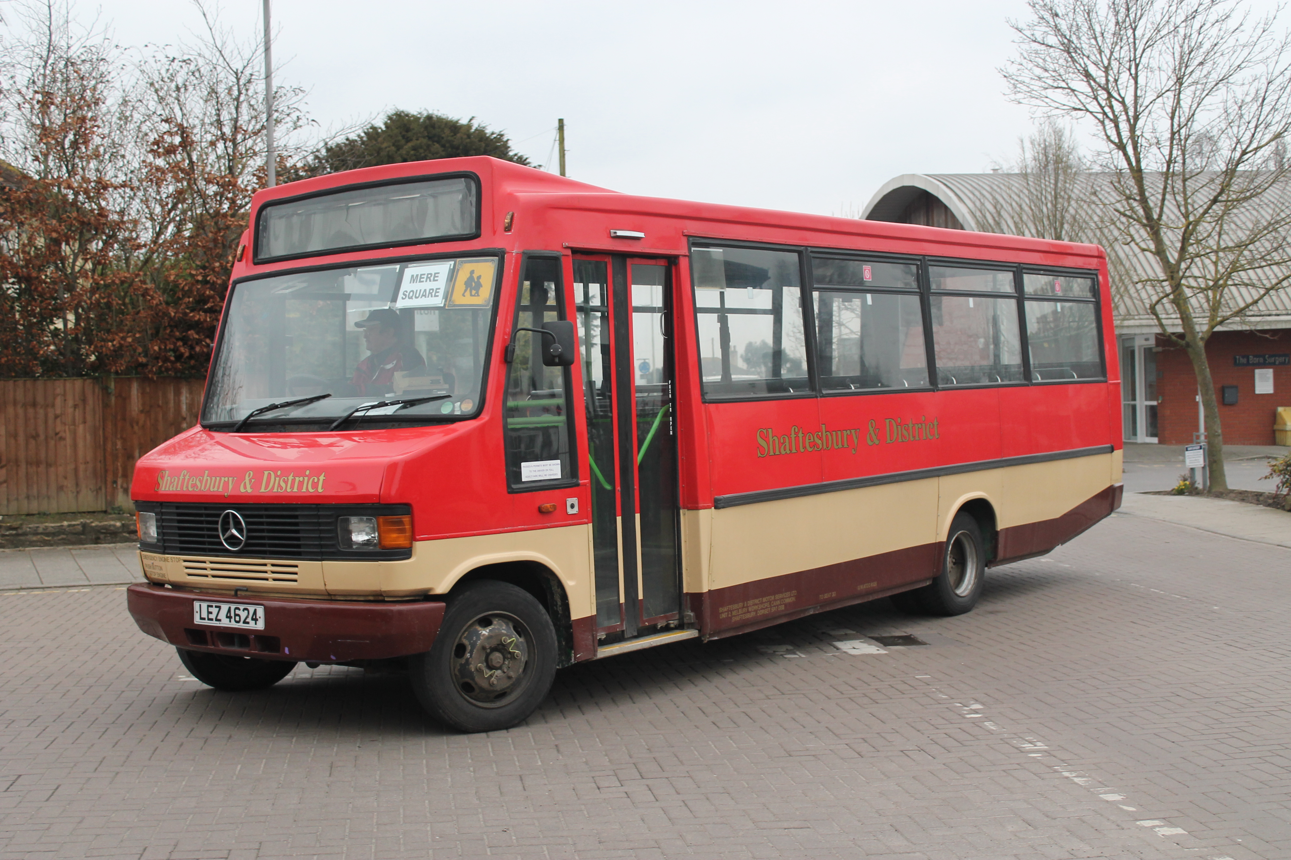 LEZ4624 (M461JPA) is a Mercedes Benz 811 with Plaxton Beaver 1 bodywork. This type was very popular in London and the surrounding area in the early to mid 90s and this is one of the type which is still operating and has escaped the scrapman (for now!). This bus has had a pretty action packed life being new to the now defunct London & Country and then passing to Arriva Shires & Essex, being transferred to Trustline (Now Centrebus Harlow) and finally getting to its current owner, Shaftesbury & District in the late 2000s, about 15 years after new. I think this is a very smart livery LEZ 4624 is in: the three colours look very smart. The bus also retains original "bench type" seating which I prefer and is reliable, still operating services all the way to Bath on the 80/X80. They just don't build buses like this anymore! Sadly the DDA deadline means this bus will have to be taken out of service in 2015 unless it is fitted with disabled access (very unlikely!). I hope it can get preserved, like other ex Shaftesbury and District buses, but many people are not interested in "modern" buses like this and would much rather travel in a rather ubiquitous Routemaster or other 1950s or 1960s buses. Taken on Monday 25th March 2013, after 18 years of solid service on a school run, the "Mere Square" bus.